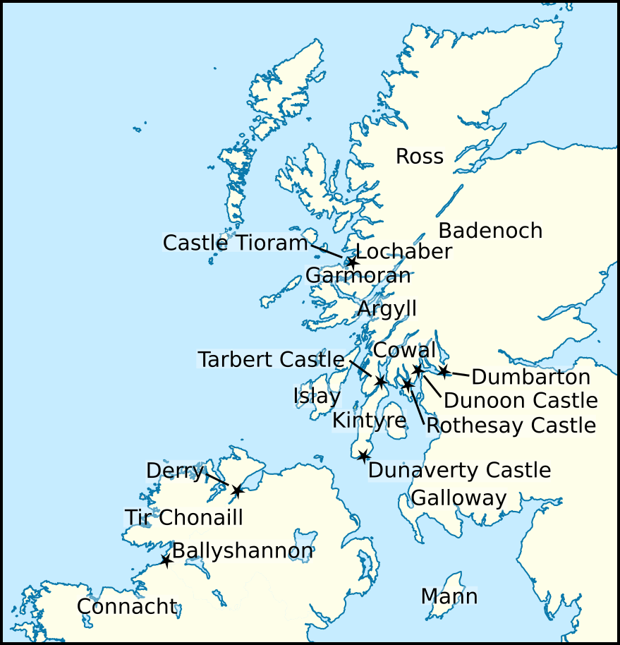 Map created for the Wikipedia article concerning Ruaidhrí mac Raghnaill (died 1247?).